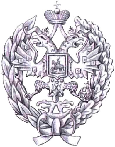 Badge of Nikolaewsky_War_Academy